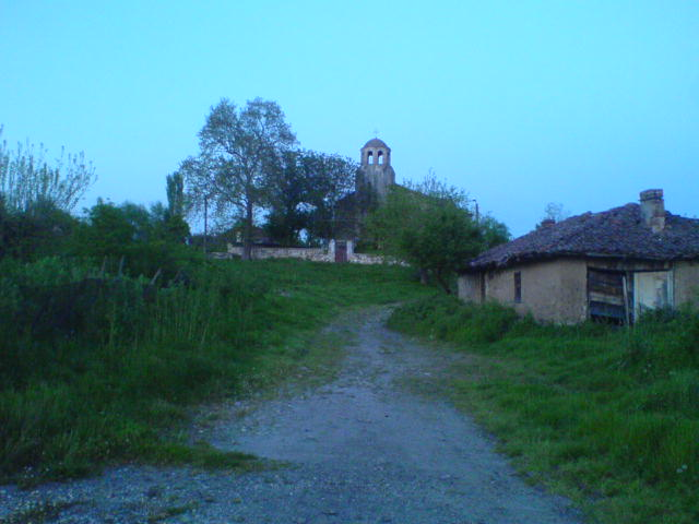 Drabishna Church